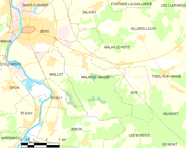 Map of French municipality Malay-le-Grand